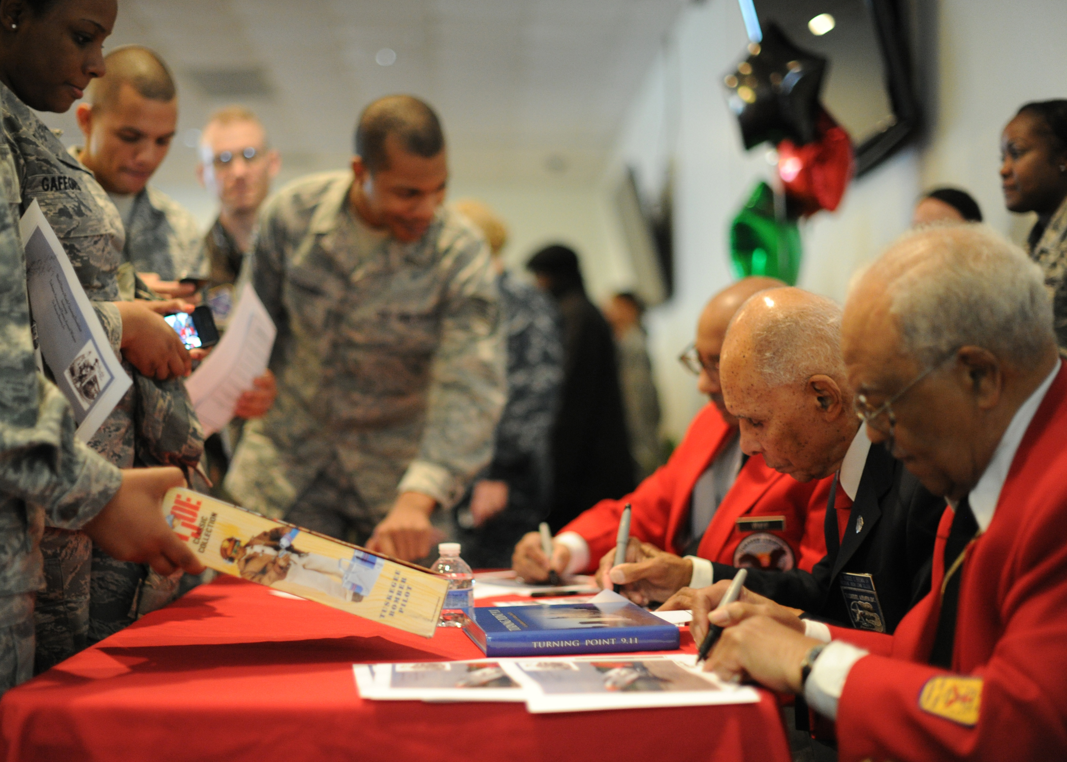 Tuskegee Airmen sign autographs for service members during the Black History Month Opening Breakfast at Joint Base Andrews, Md., Feb. 1, 2013. This free event kicked off BHM and featured guest speaker Dr. Roscoe C. Brown Jr., who is a former Tuskegee Airman. (U.S. Air Force photo/ Staff Sgt. Nichelle Anderson)